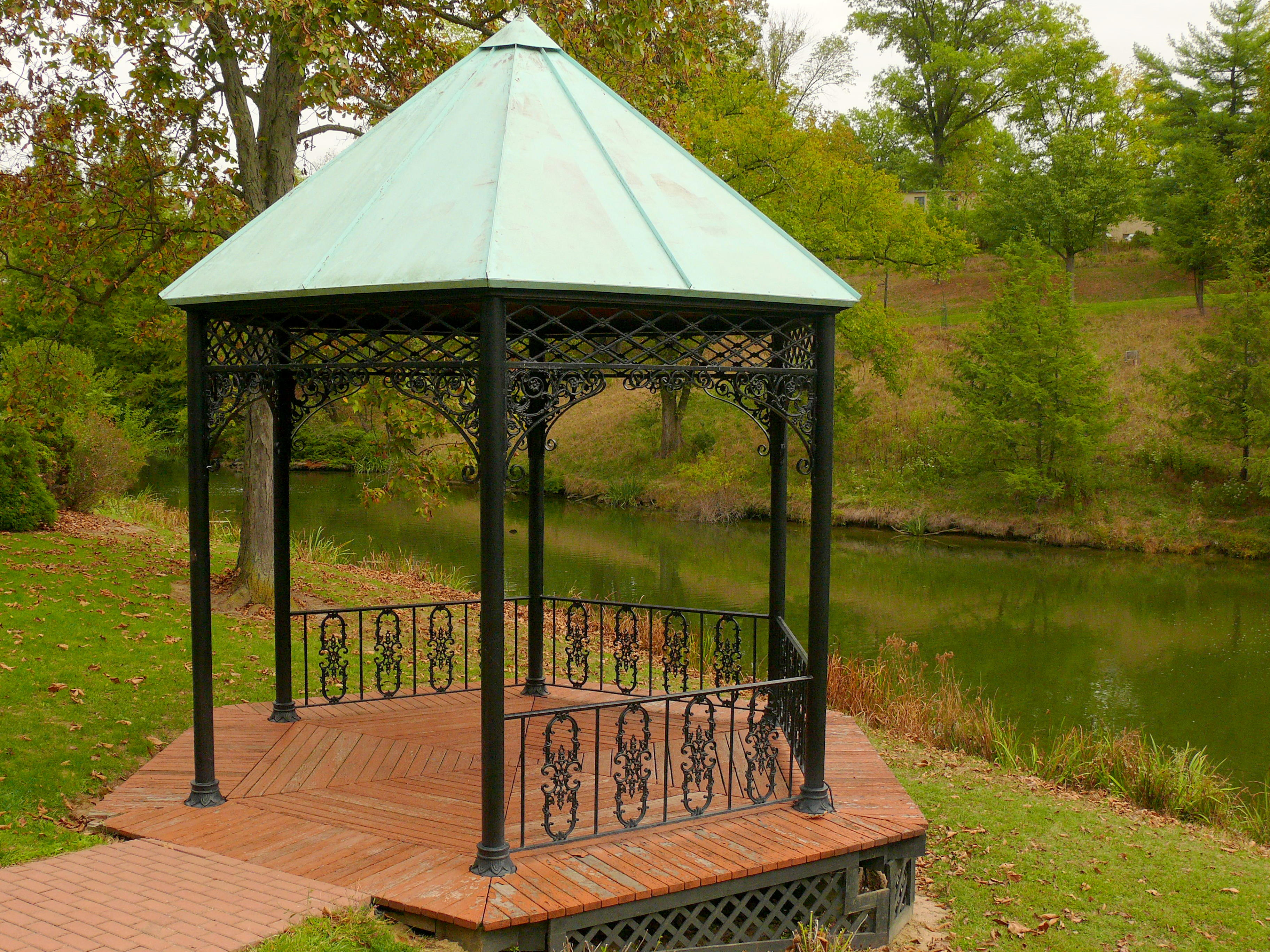 Gazebo in Mt. Airy Park, Cincinnati, Oh.